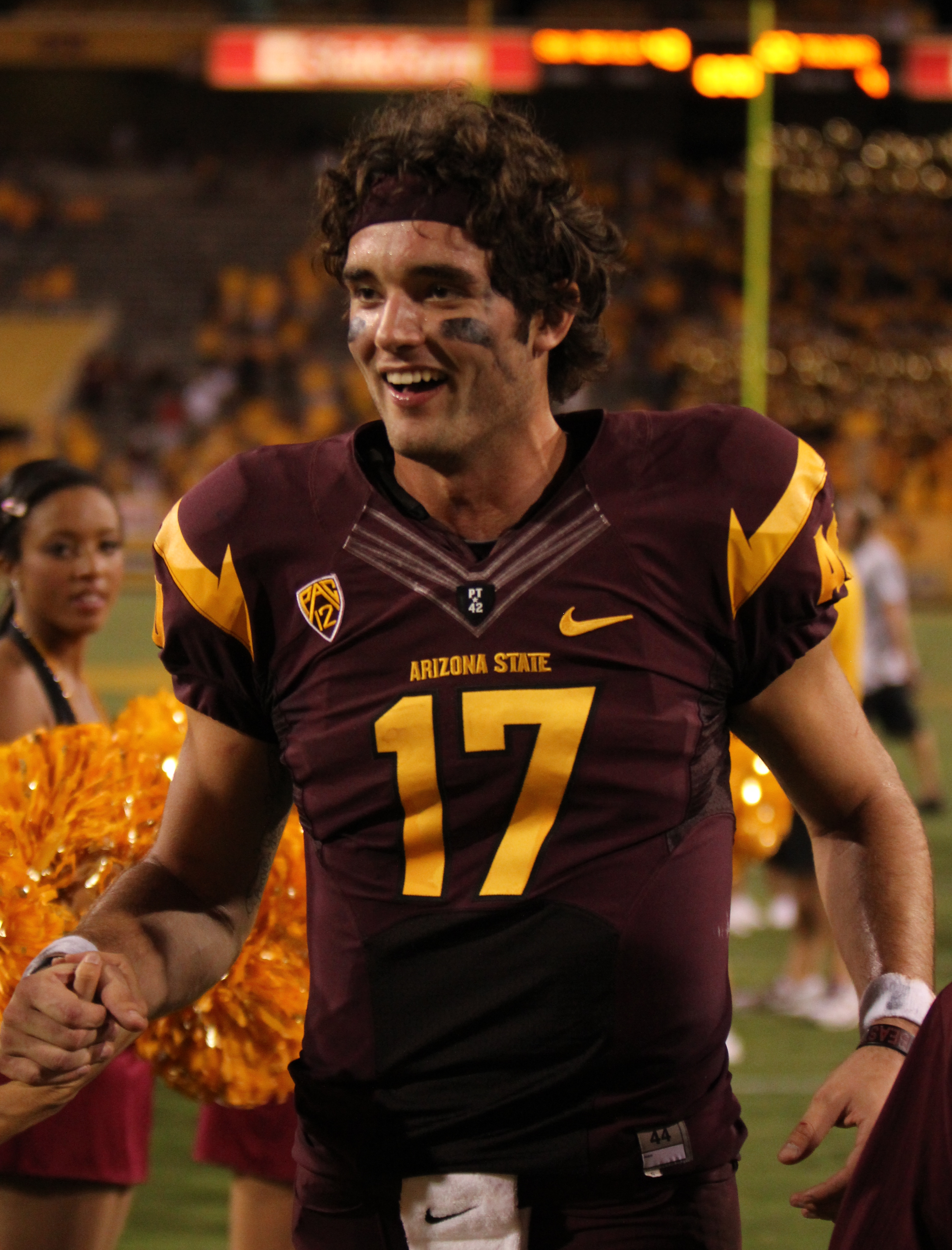 Taken by James Santelli, Neon Tommy. September 24, 2011.